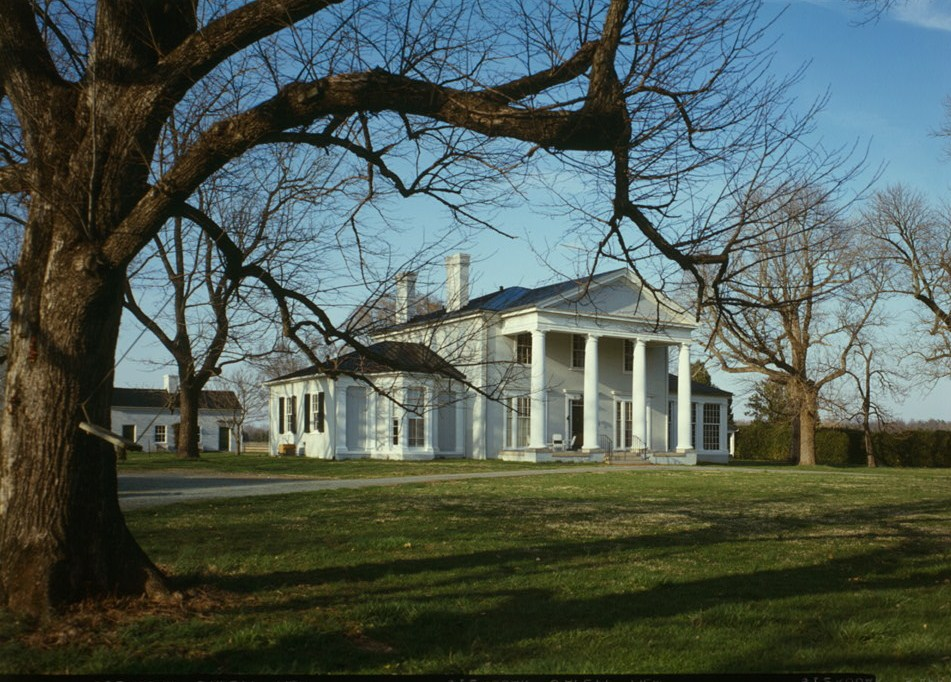 Westend (Main House), Route 638 vicinity, Trevilians vicinity (Louisa County, Virginia) cropped This file comes from the Historic American Buildings Survey (HABS), Historic American Engineering Record (HAER) or Historic American Landscapes Survey (HALS). These are programs of the National Park Service established for the purpose of documenting historic places. Records consist of measured drawings, archival photographs, and written reports. When reusing please credit: Library of Congress, Prints & Photographs Division, va4 This tag does not indicate the copyright status of the attached work. A normal copyright tag is still required. See Commons:Licensing. This work is in the public domain in the United States because it is a work prepared by an officer or employee of the United States Government as part of that person’s official duties under the terms of Title 17, Chapter 1, Section 105 of the US Code. Note: This only applies to original works of the Federal Government and not to the work of any individual U.S. state, territory, commonwealth, county, municipality, or any other subdivision. This template also does not apply to postage stamp designs published by the United States Postal Service since 1978. (See § 313.6(C)(1) of Compendium of U.S. Copyright Office Practices). It also does not apply to certain US coins; see The US Mint Terms of Use. This file has been identified as being free of known restrictions under copyright law, including all related and neighboring rights. Object location38° 02′ 43″ N, 78° 10′ 10″ W